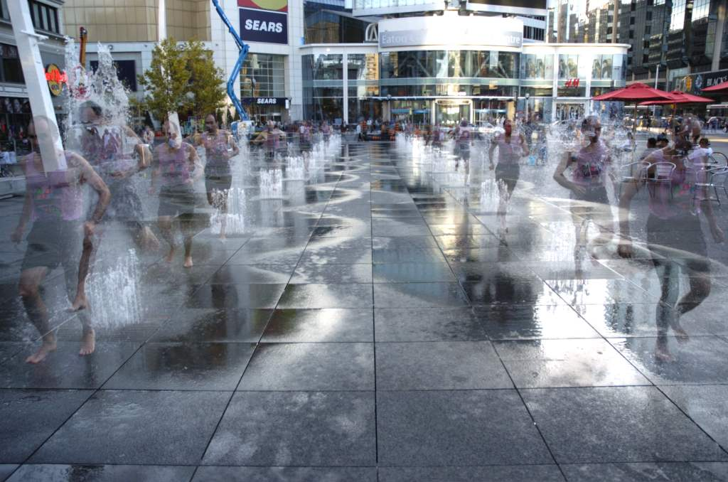 A jogger cools off in the Dundas Square splash fountains. Multiple exposure picture taken of a jogger cooling off in the 20 splash fountains that form the centerpiece of Dundas Square, at the heart of downtown Toronto. The picture was created using the Computer Enhanced Multiple Exposure Numerical Technique (CEMENT). Input data were captured using a Nikon D2h, with 18-70mm lens set to 18mm.